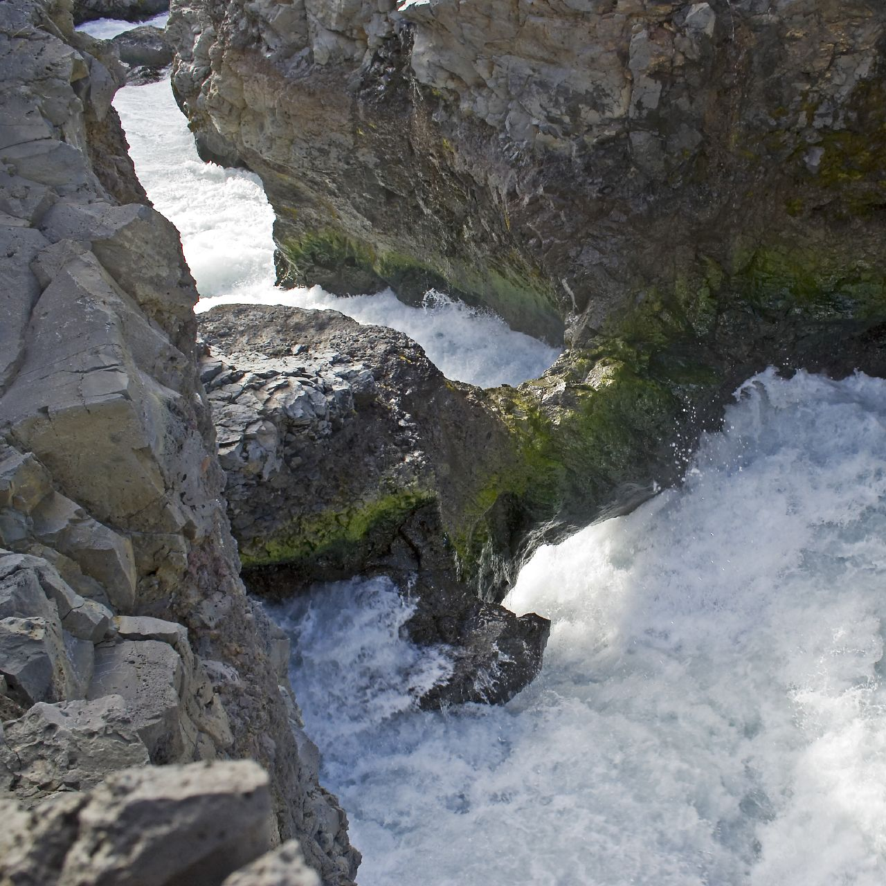 Barnafoss waterfall in glacial river Hvítá, Iceland